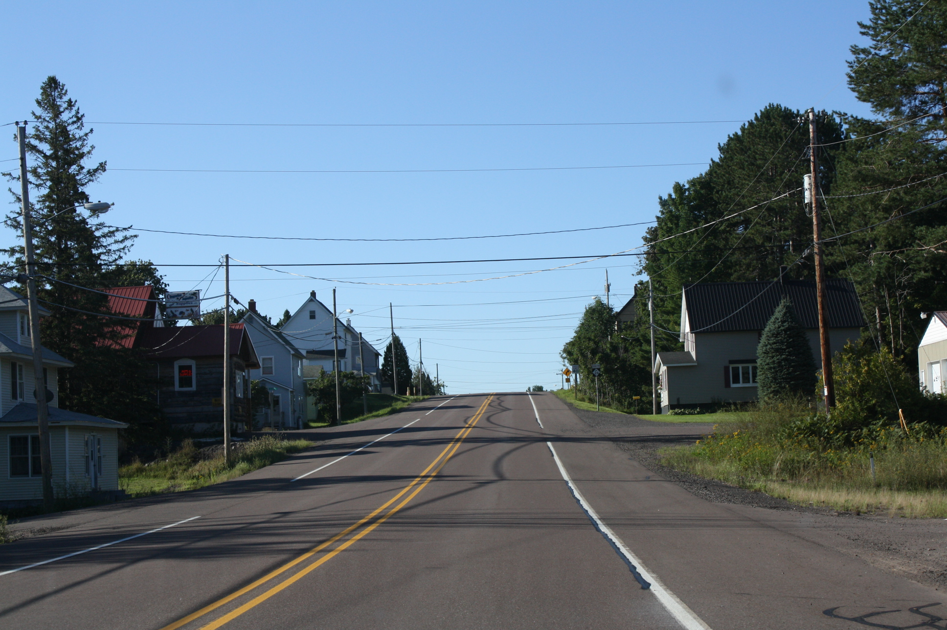 Looking south on M-26 (Michigan highway) while traveling through Painesdale, Michigan.